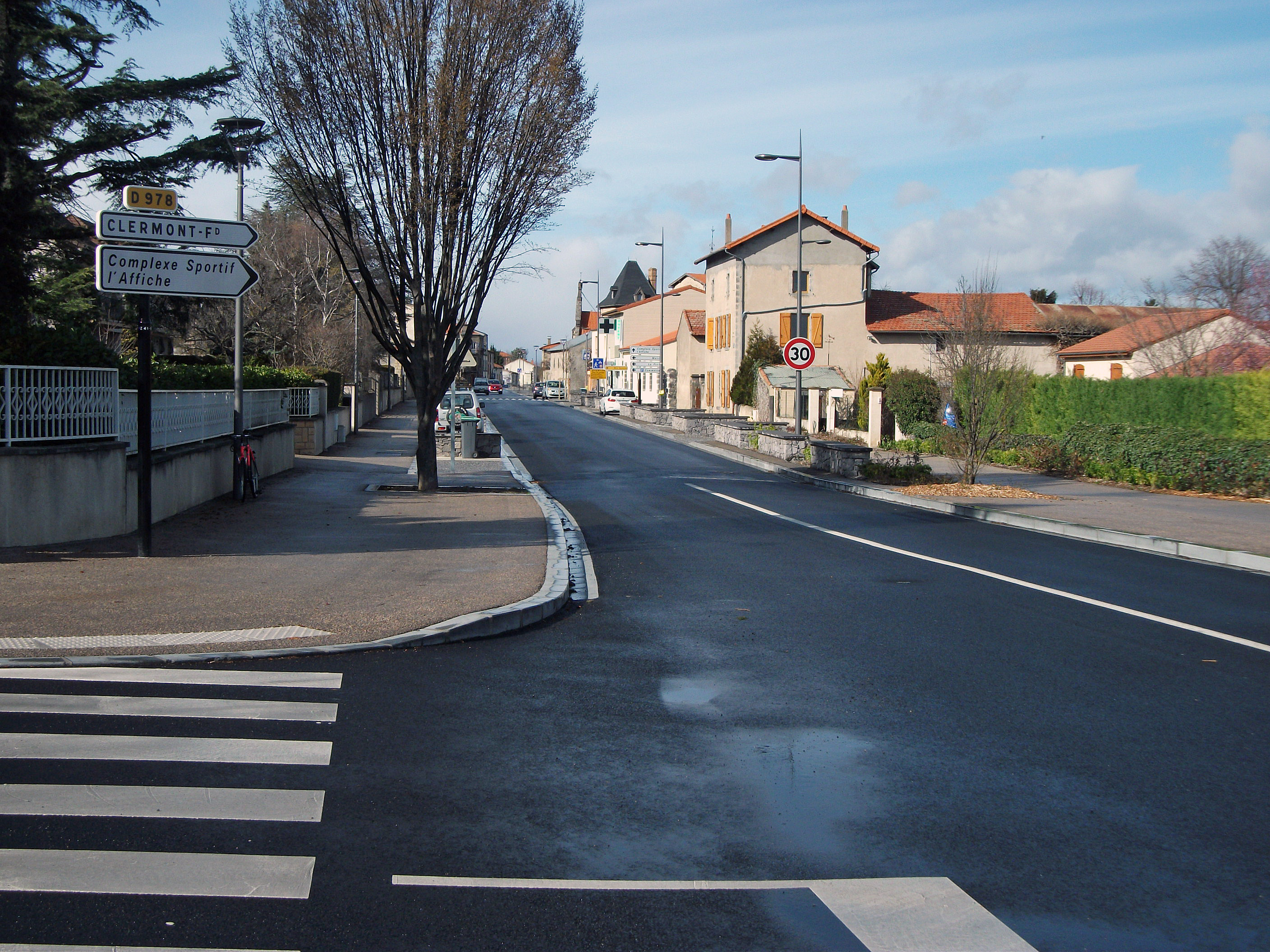 Departmental road 978 (avenue de la République) renovated in Pérignat-lès-Sarliève, towards Clermont-Ferrand. [10165]